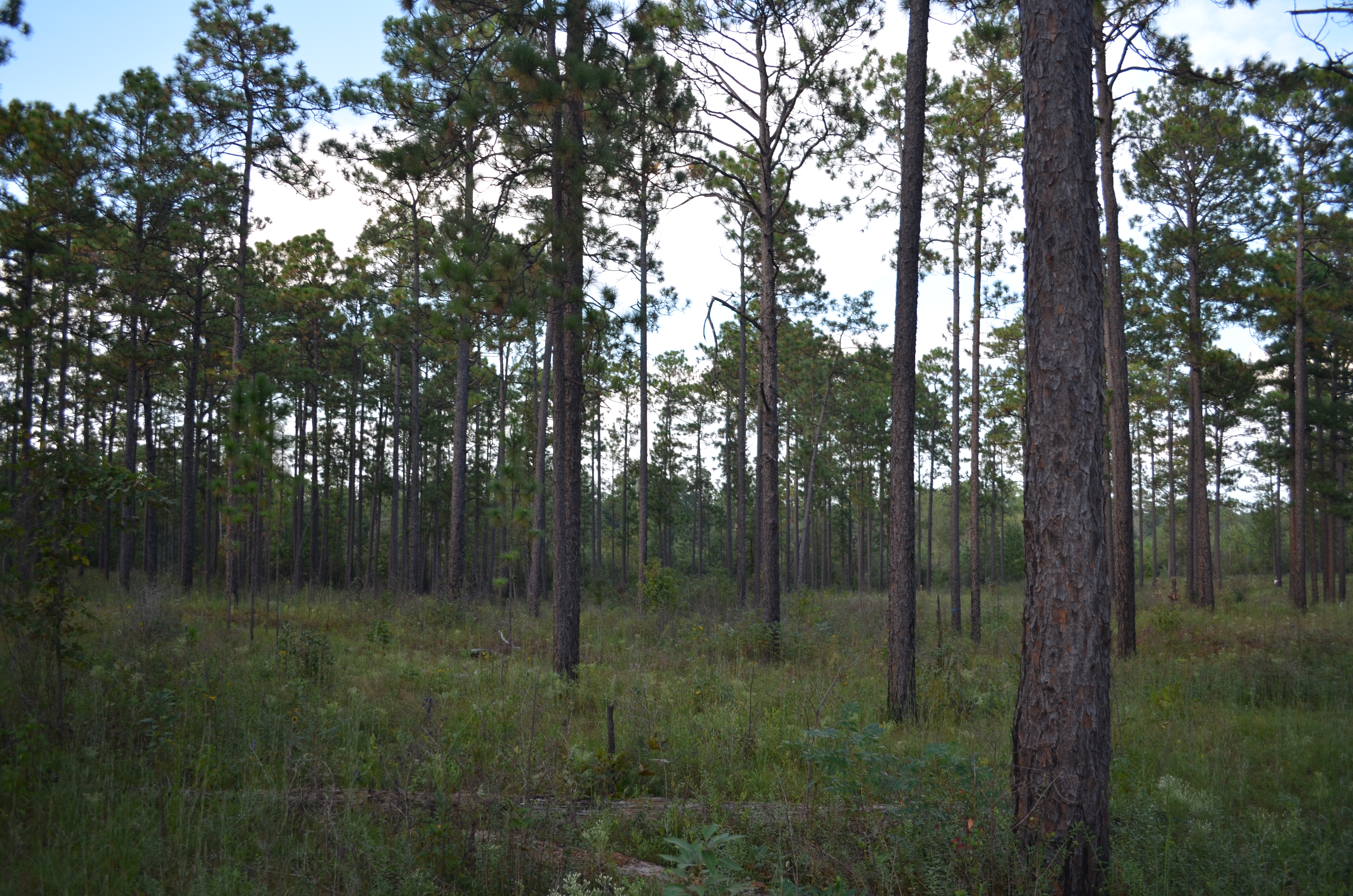 Upland longleaf pine savannah at the Lake Thoreau Environmental Center of the University of Southern Mississippi